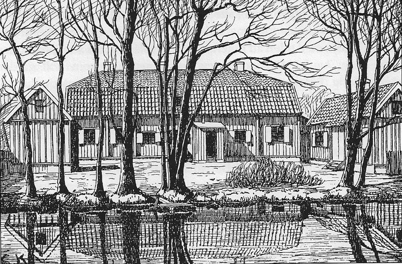 Norra Burgården, a mansion in Gothenburg, Sweden